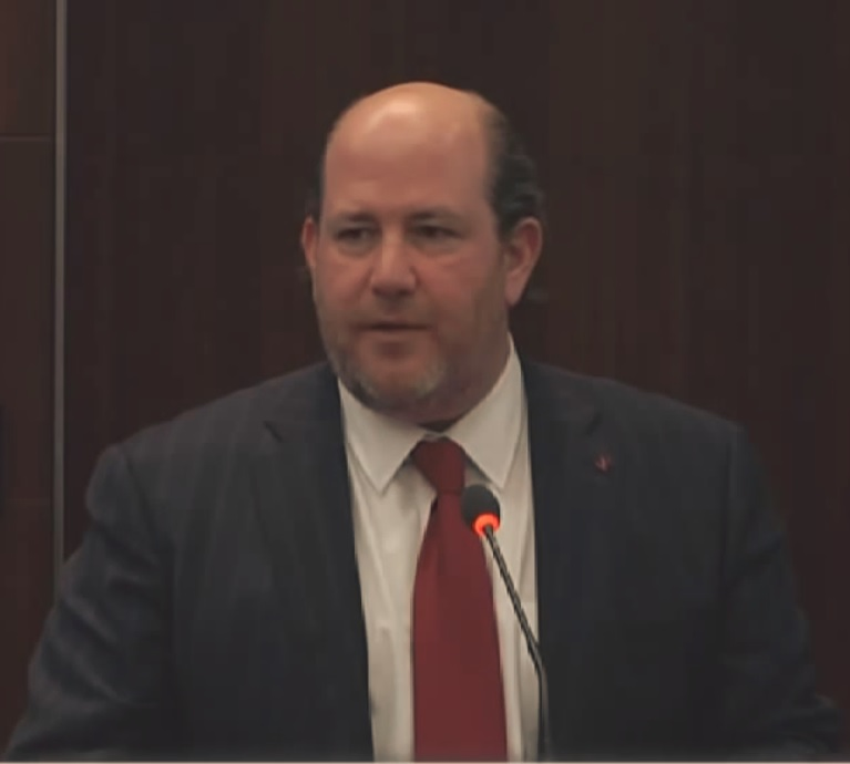 H. Andrew Schwartz, chief communications officer at the Center for Strategic & International Studies, presenting the Schieffer Series Journalist Roundtable on National Security & Foreign Policy Flash Points.